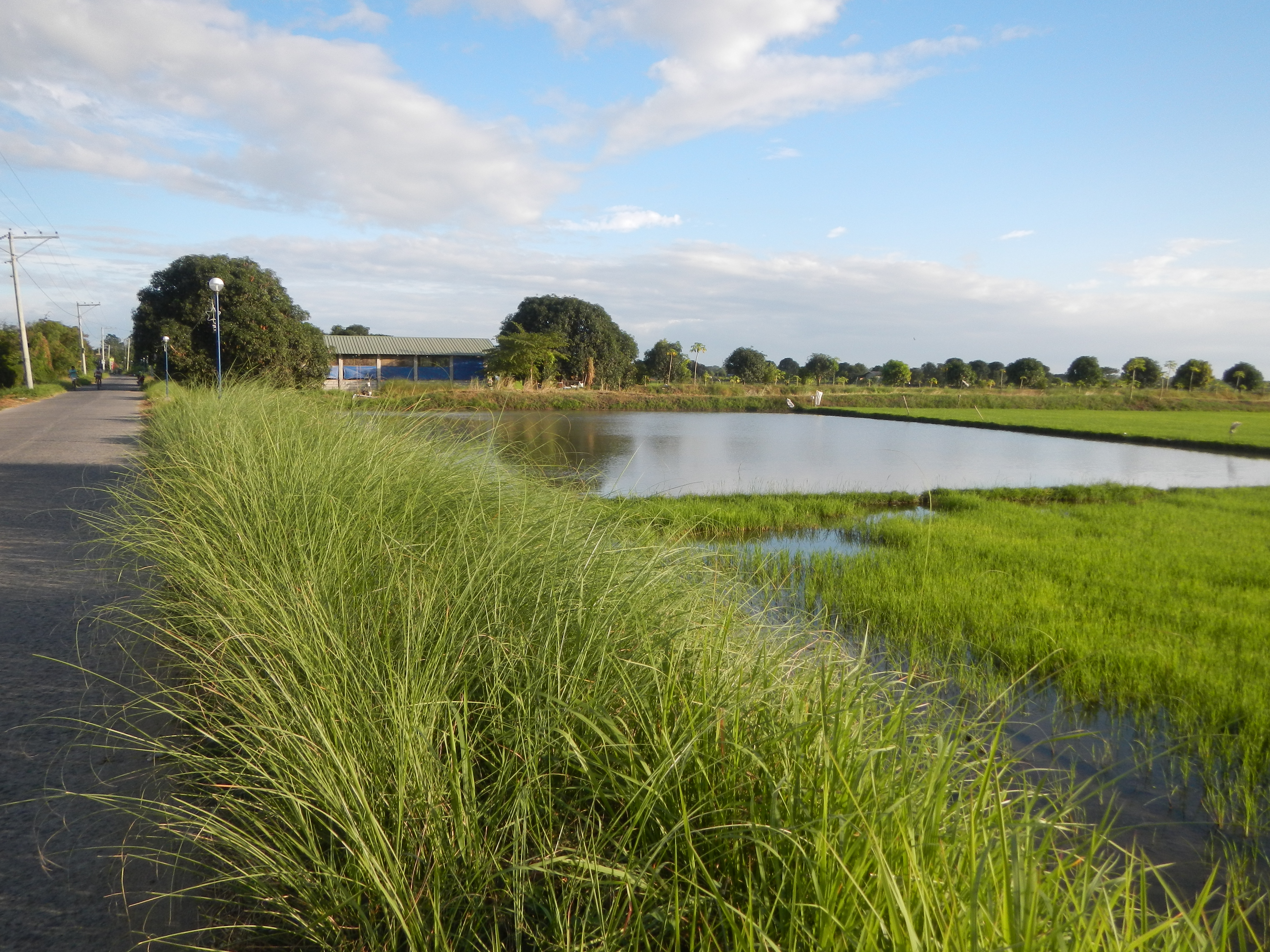 Candaba-San Luis, Pampanga Road, Barangay Santa Lucia, beside San Carlos, San Luis, Pampanga [1] [2] beside Santa Rita and Santo Tomas, San Luis, Pampanga from the San Luis, Pampanga Welcome arch (from Candaba, Pampanga) along the San Luis-Candaba, Pampanga-Baliuag, Bulacan Road to San Luis-Candaba, Pampanga-Baliuag, Bulacan Road (Barangays Pulong Palazan, Mangga, Dalayap, Tenejero, Talang and Barit section) accessed from and along Baliuag, Bulacan-Candaba, Pampanga Road from Maharlika Highway (Cagayan Valley Road, Baliuag-Pulilan-Guiguinto, Bulacan) Pan-Philippine Highway, also known as the Maharlika "Nobility/freeman" Highway or Asian Highway 26, Cagayan Valley Road).